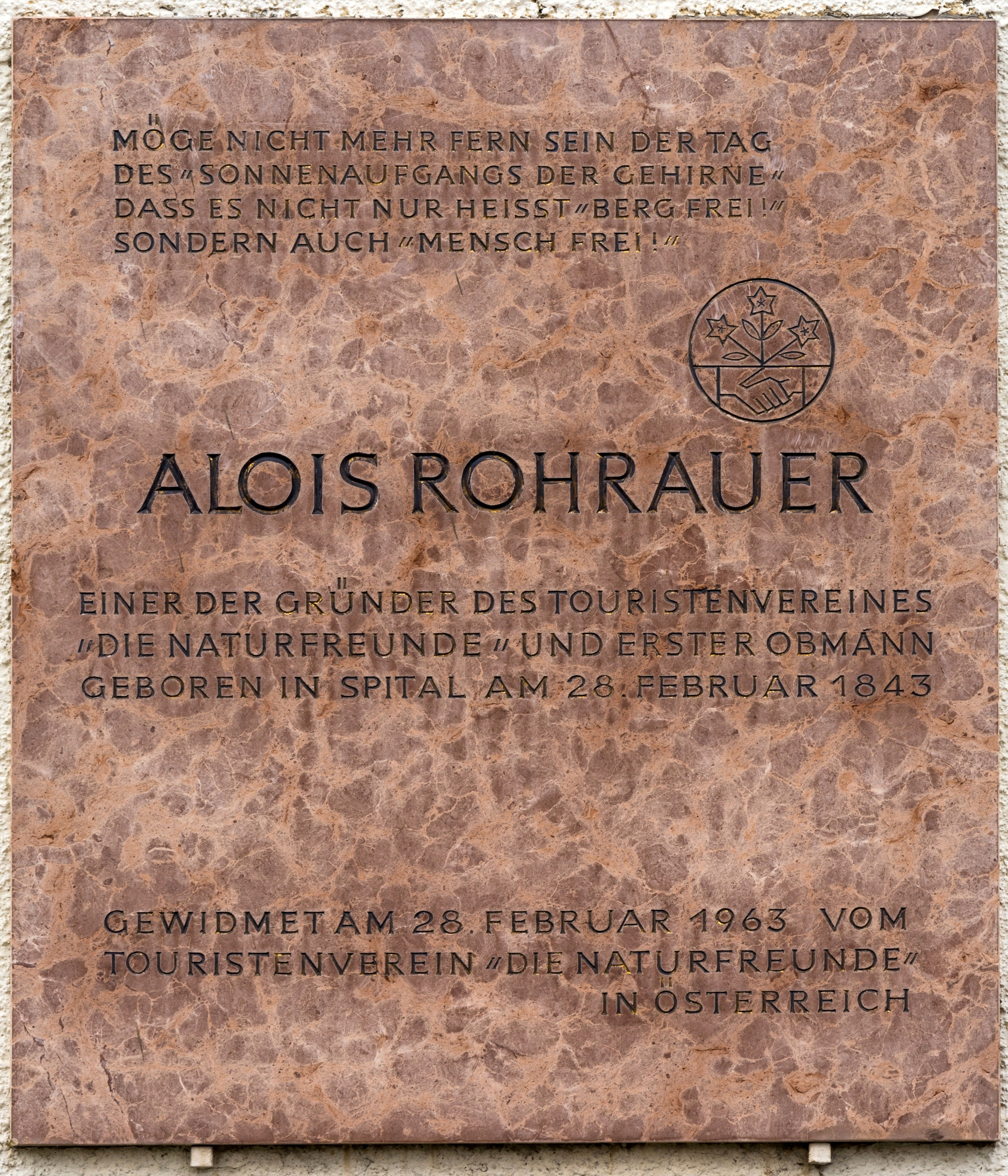 Commemorative plaque for Alois Rohrauer in Spital am Pyhrn. Rohrauer was the first chairman of the tourist club "Die Naturfreunde" in Austria.